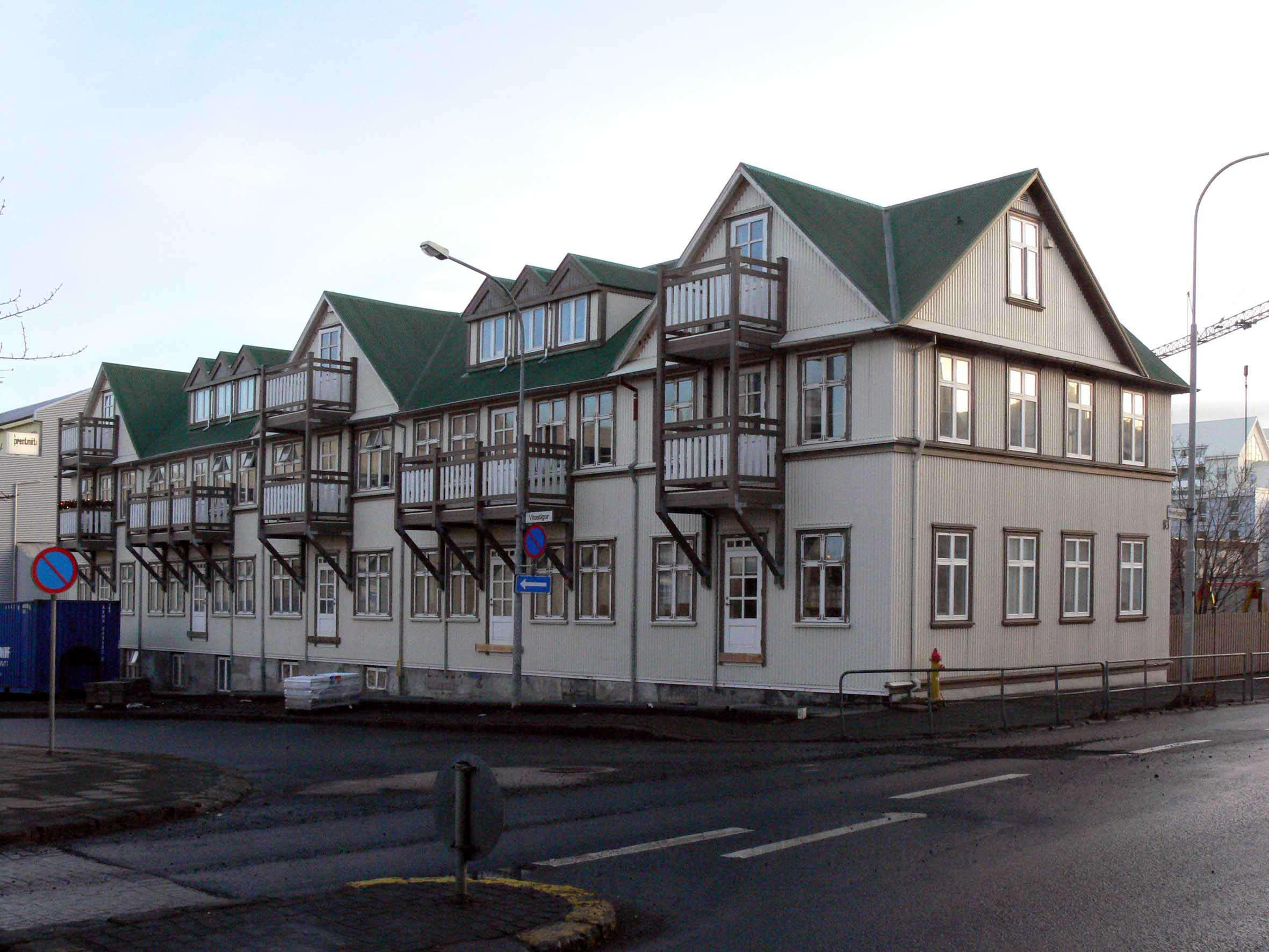 The House "Bjarnaborg" in Vitastíg in Reykjavík. This house is build from the rich man Bjarni. This was the first social build for poors in Reykjavík.